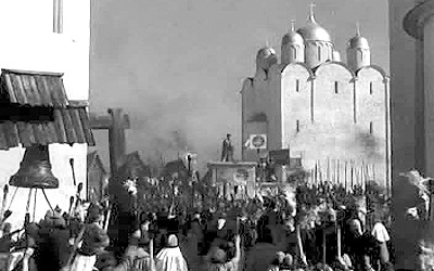 Still from the film Alexander Nevsky by Sergey Eisenstein.